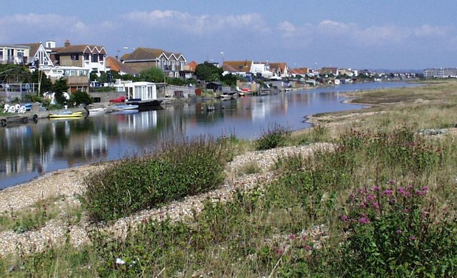 Houses along Widewater Lagoon